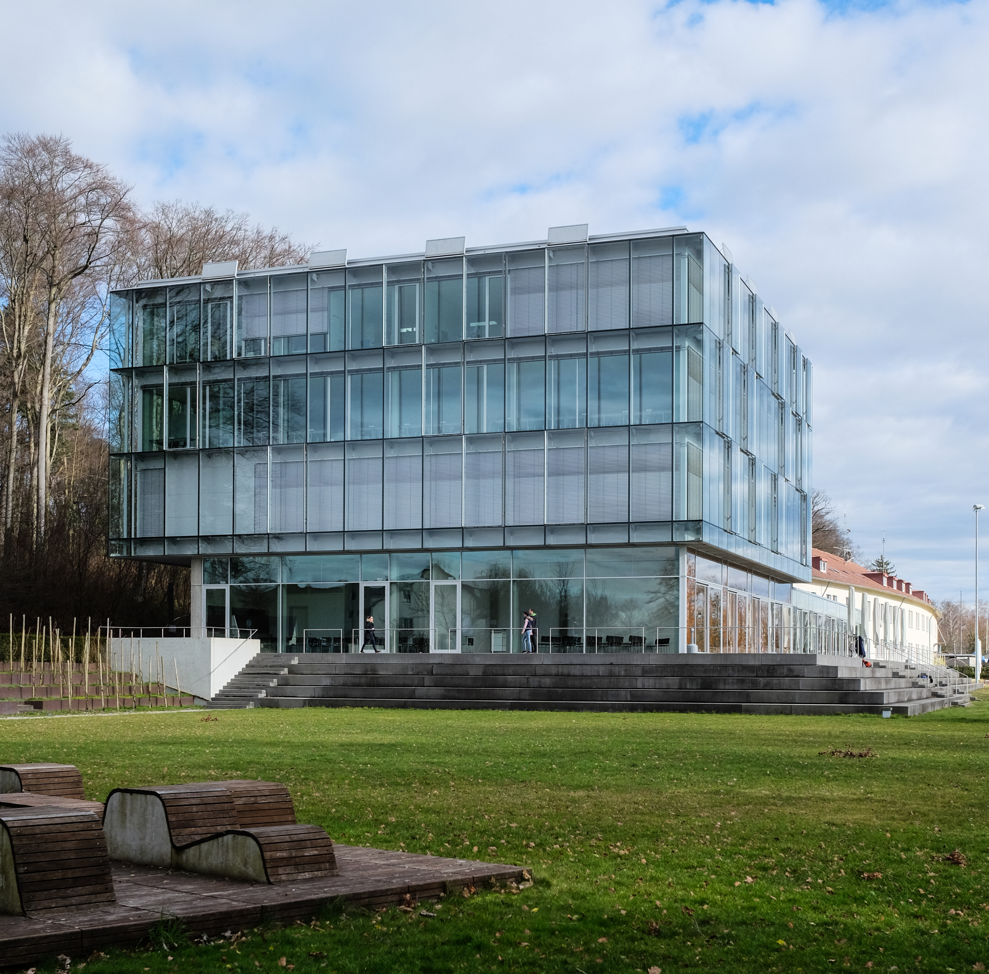 Zeppelin University, Friedrichshafen, Bodenseekreis, Baden-Württemberg, Germany